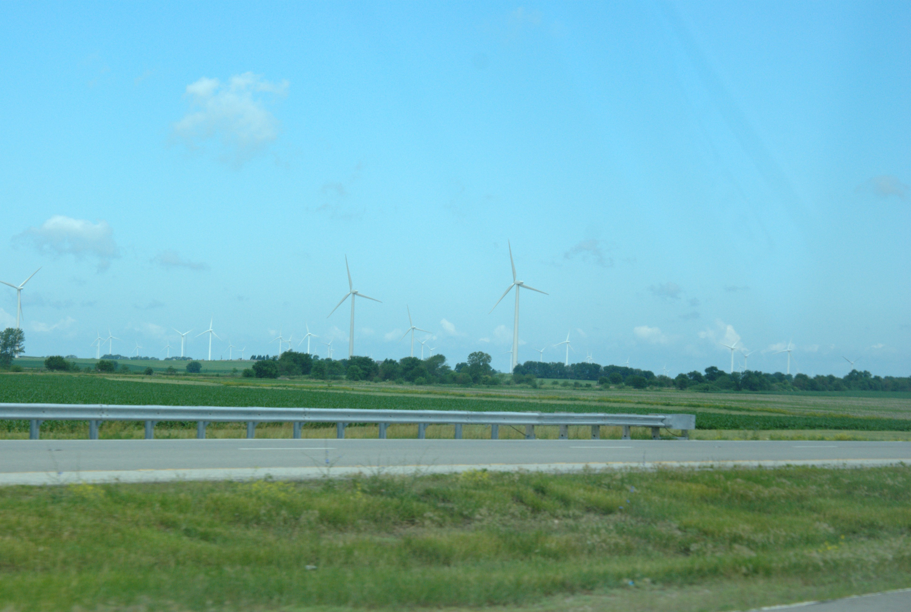 The Benton County, Indiana ("Fowler Ridge") wind farm, near Earl Park, IN. A view of part of the farm from US-52.